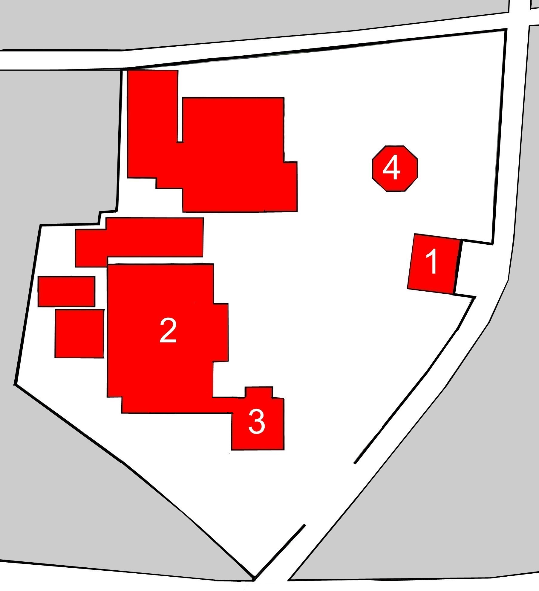 Layout of Kichijō-ji (Saijō), a tempel in Japan